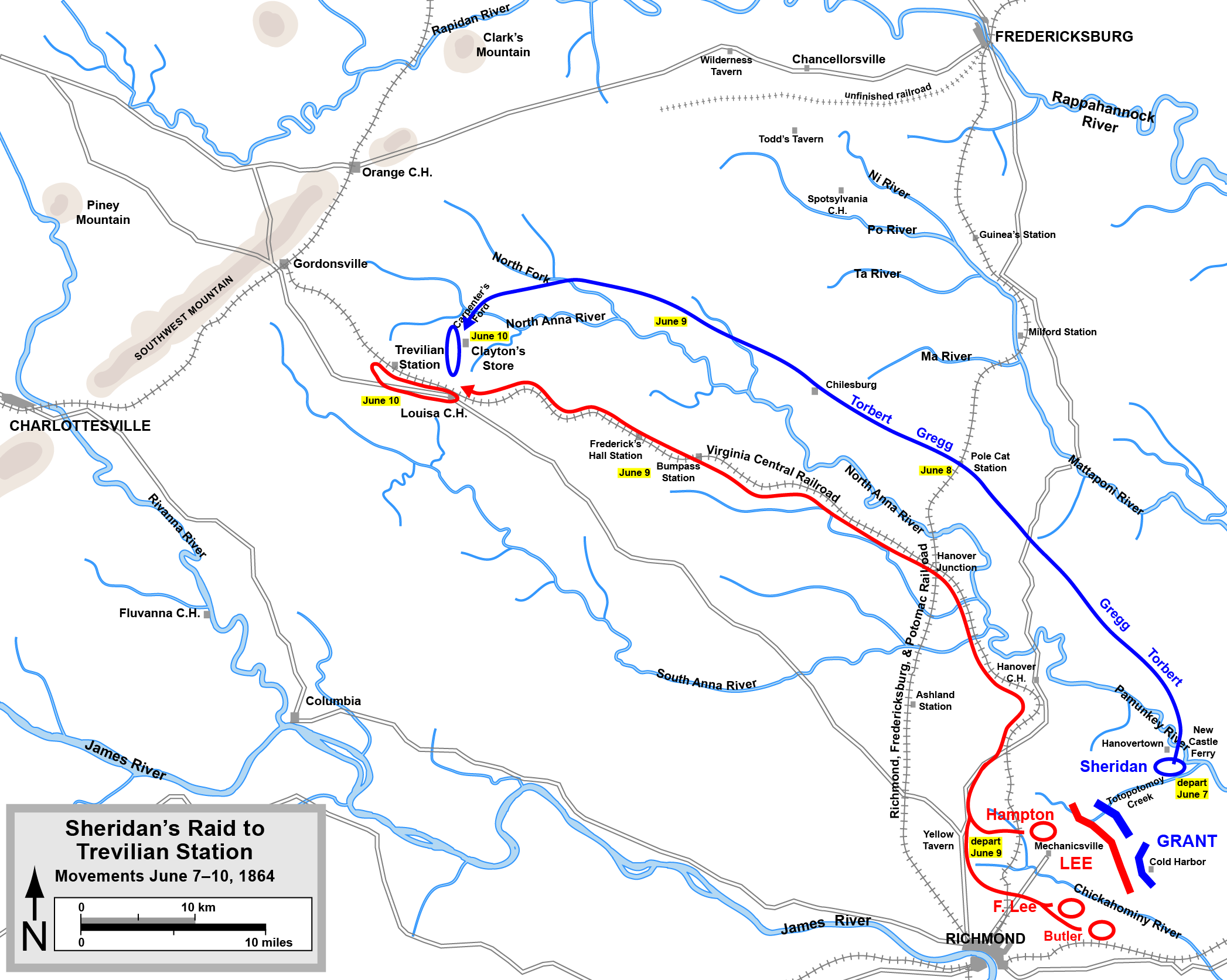 Map of the Sheridan's raid to Trevilian Station of the American Civil War, drawn in Adobe Illustrator CS5 by Hal Jespersen. Graphic source file is available at